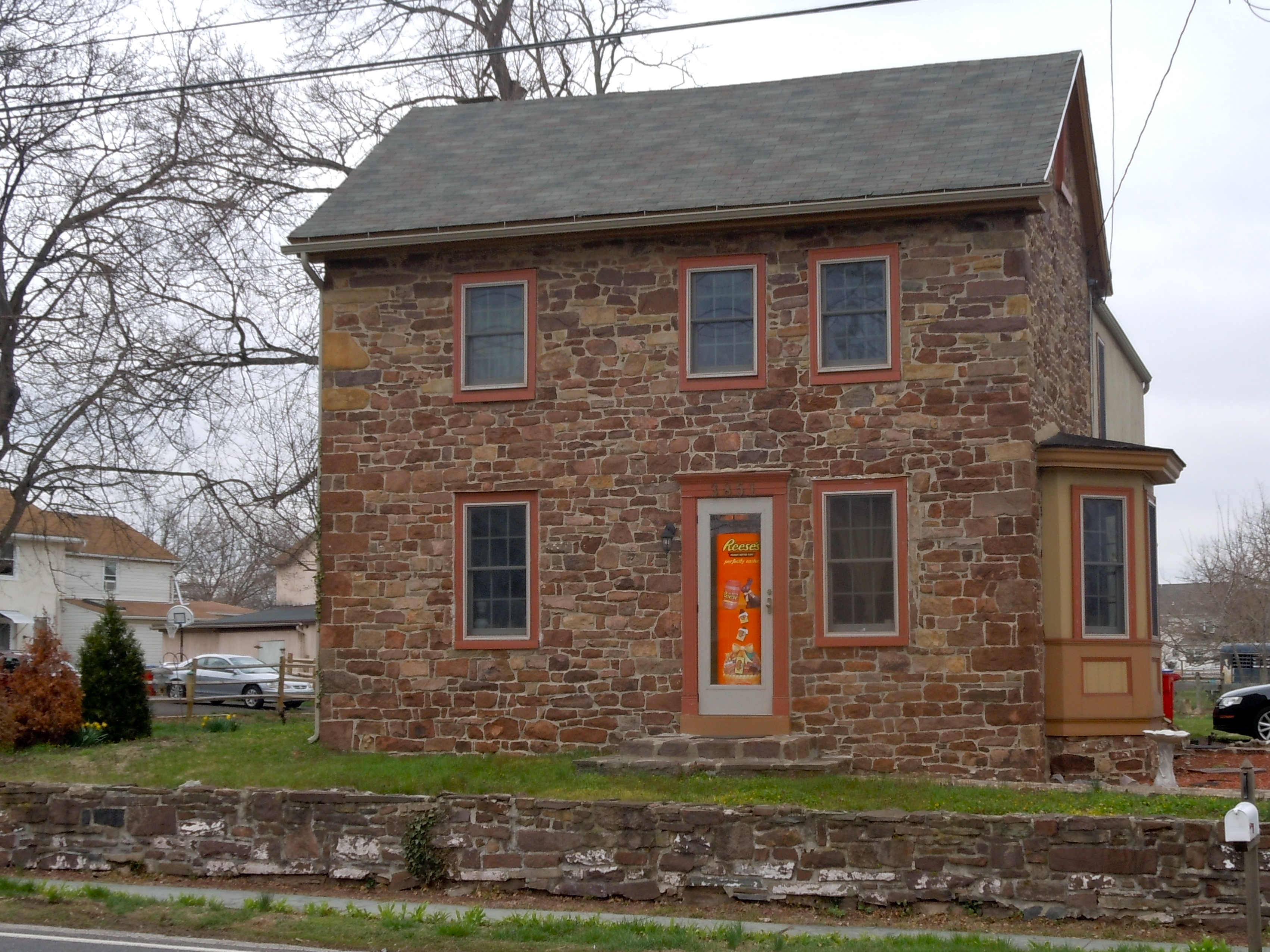 House in Evansburg Historic District on the NRHP since June 19, 1972. On Germantown Pike, bounded by Cross Key Road, Grange Avenue, Mill Road, and Ridge Pike, Evansburg, Pennsylvania